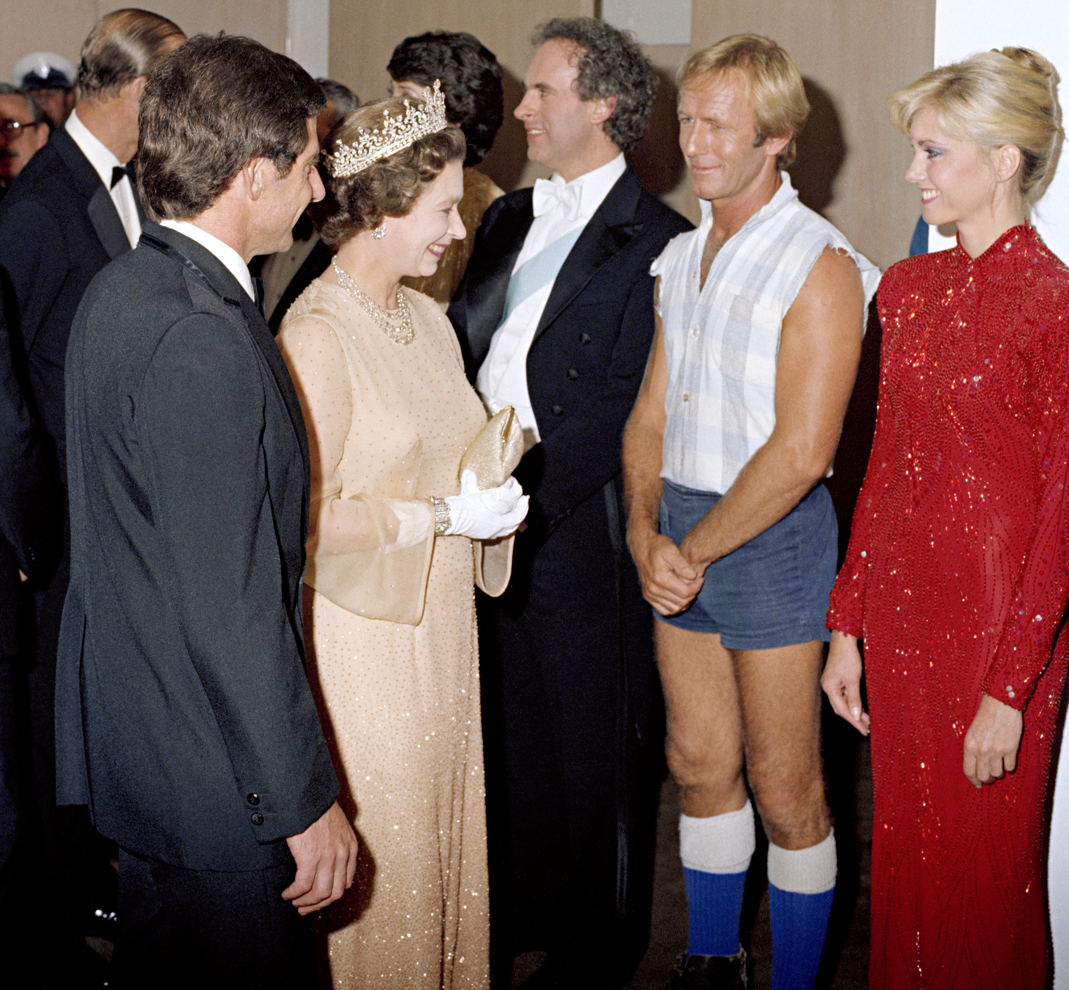 Queen Elizabeth II and the Duke of Edinburgh meet Australian entertainers who performed in a Royal Charity Concert at the Sydney Opera House [in 1980]. Performers include (from left): pianist Roger Woodward, comedian Paul Hogan and singer Olivia Newton-John.